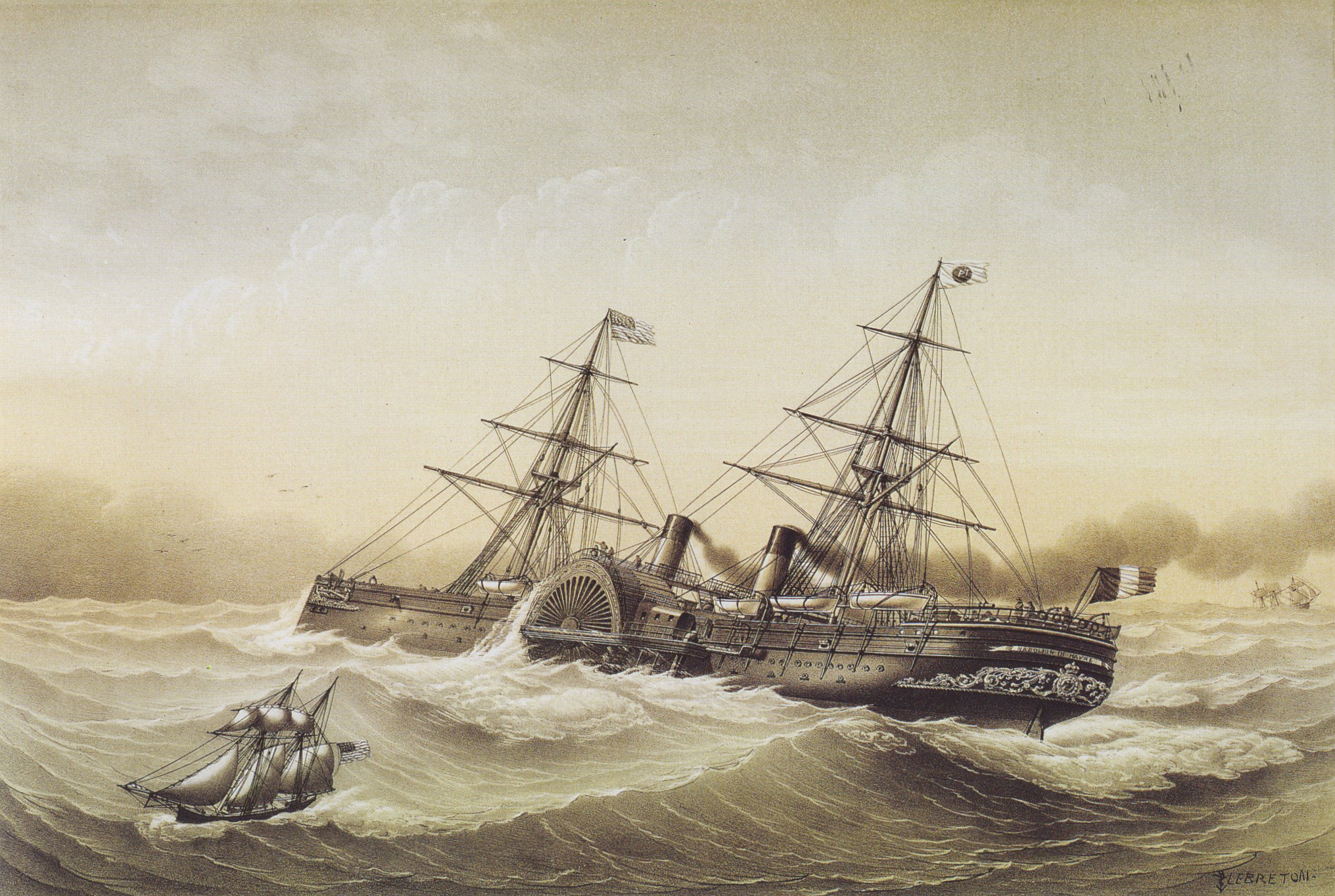 Sail-steamer Napoléon III, liner from Le Havre to New York